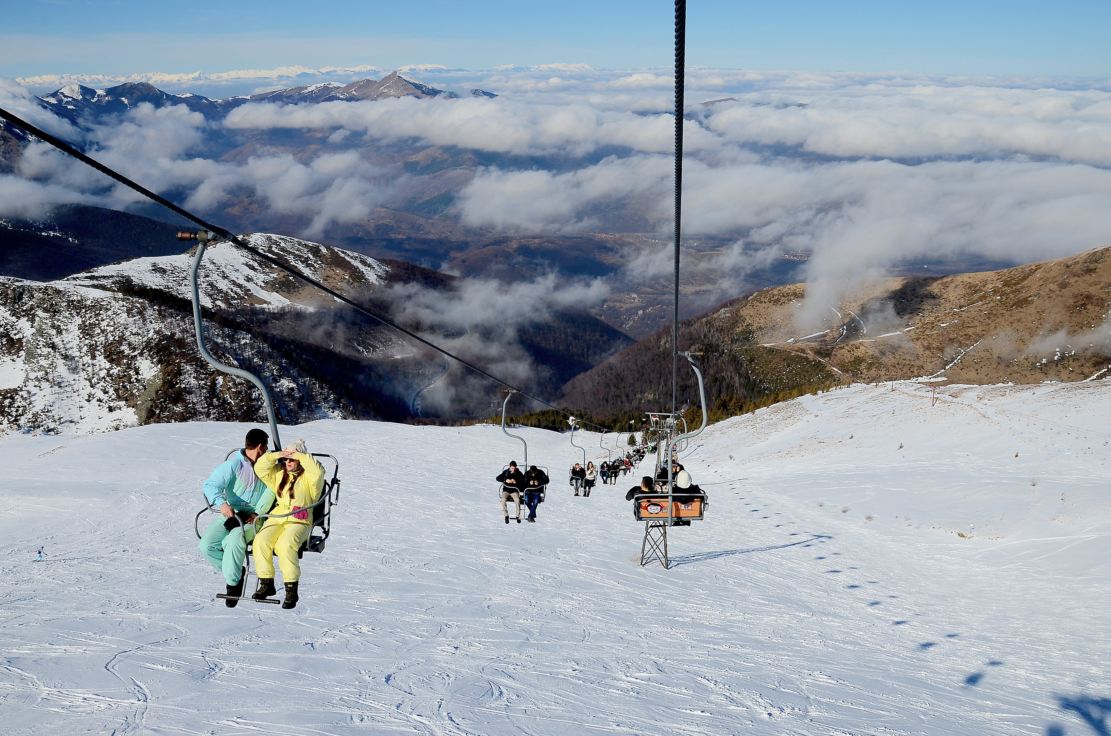 Visit Sharri Mountains and the best Ski Resort in Kosovo Brezovica